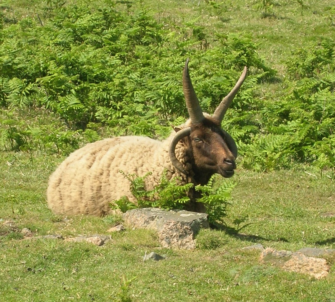 Photo taken on Jersey in July 2013